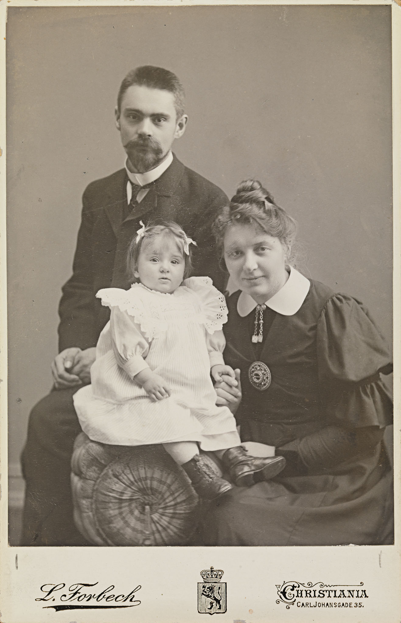 Tittel / Title: Portrett av Karen Grude (1871-1960) og Halvdan Koht (1873-1965) sammen med datteren, Åse Gruda Skard (1905-1985) Beskrivelse / Description: Kabinettkort / Cabinet cards. Dato / Date: 1907 Fotograf / Photographer: L. Forbech (Christiania) Sted / Place: Oslo Eier / Owner Institution: Nasjonalbiblioteket / National Library of Norway Lenke / Link: Bildesignatur / Image Number: bldsa_SKARD0110